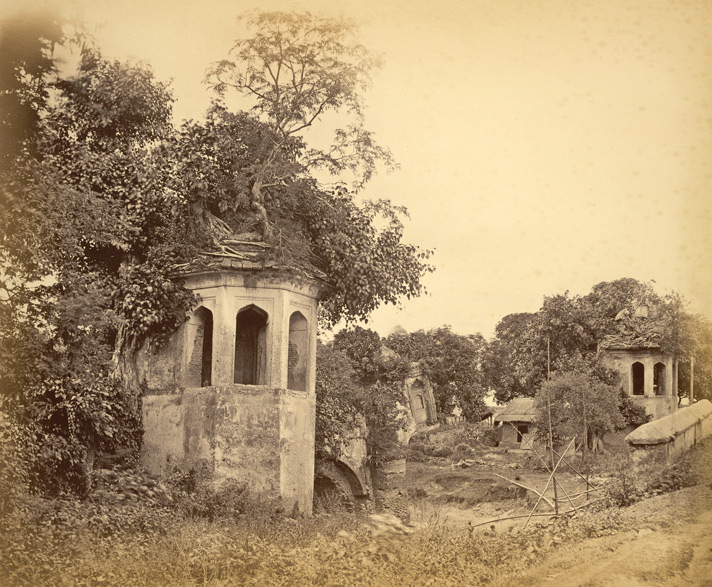 Photograph of the ruined bridge at Paglarpul taken in the 1870s by an unknown photographer. This famous bridge was built in the 17th century when Dhaka was a seat of Mughal Government. The area has a hot, damp tropical climate and is flooded periodically by waters from the Bay of Bengal as well as from the yearly moonsoon. By the 19th century many of the once-elegant buildings in the city were ruined by the action of both the climate and the resultant wildly luxuriant overgrowth of trees and vegetation which lent them a picturesque look and made them popular subjects for artists and photographers.